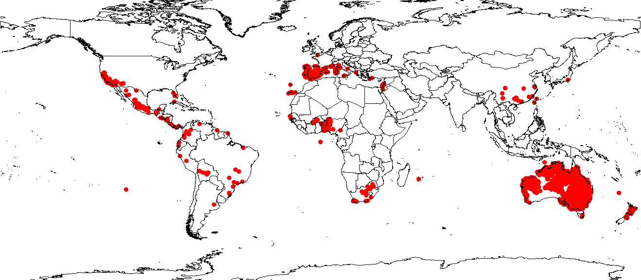 Eucalyptus camaldulensis (13 September 2018) GBIF Occurrence Download